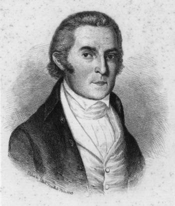 Willie Jones (1740-1801)